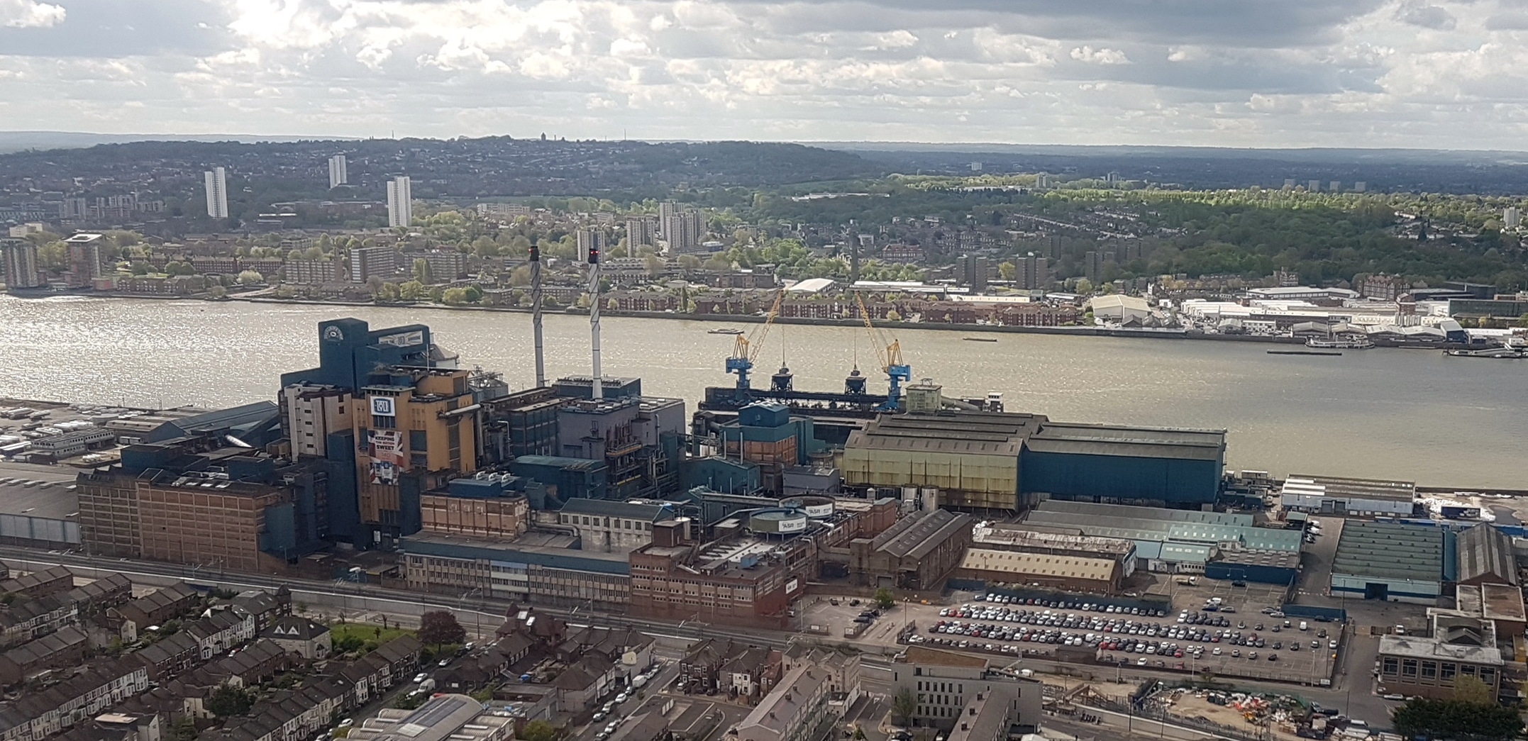 Aerial view of the river Thames, shortly after take-off from London City Airport, with Silvertown and Tate & Lyle south of the river, and Woolwich and Shooters Hill north of river.